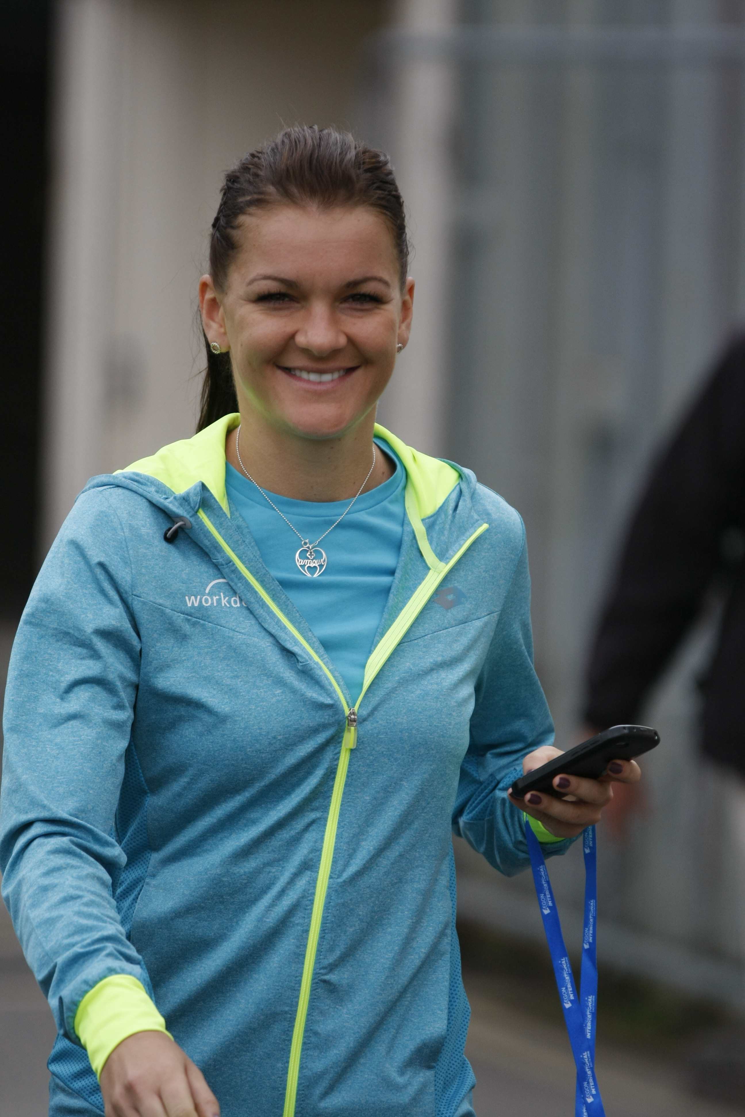 Aegon International Tennis, Devonshire Park, Eastbourne June 2015